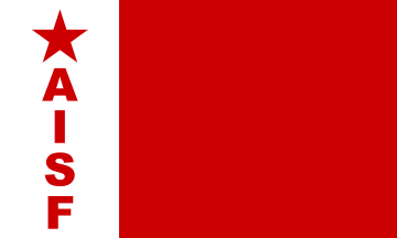 Aisf flag with initials